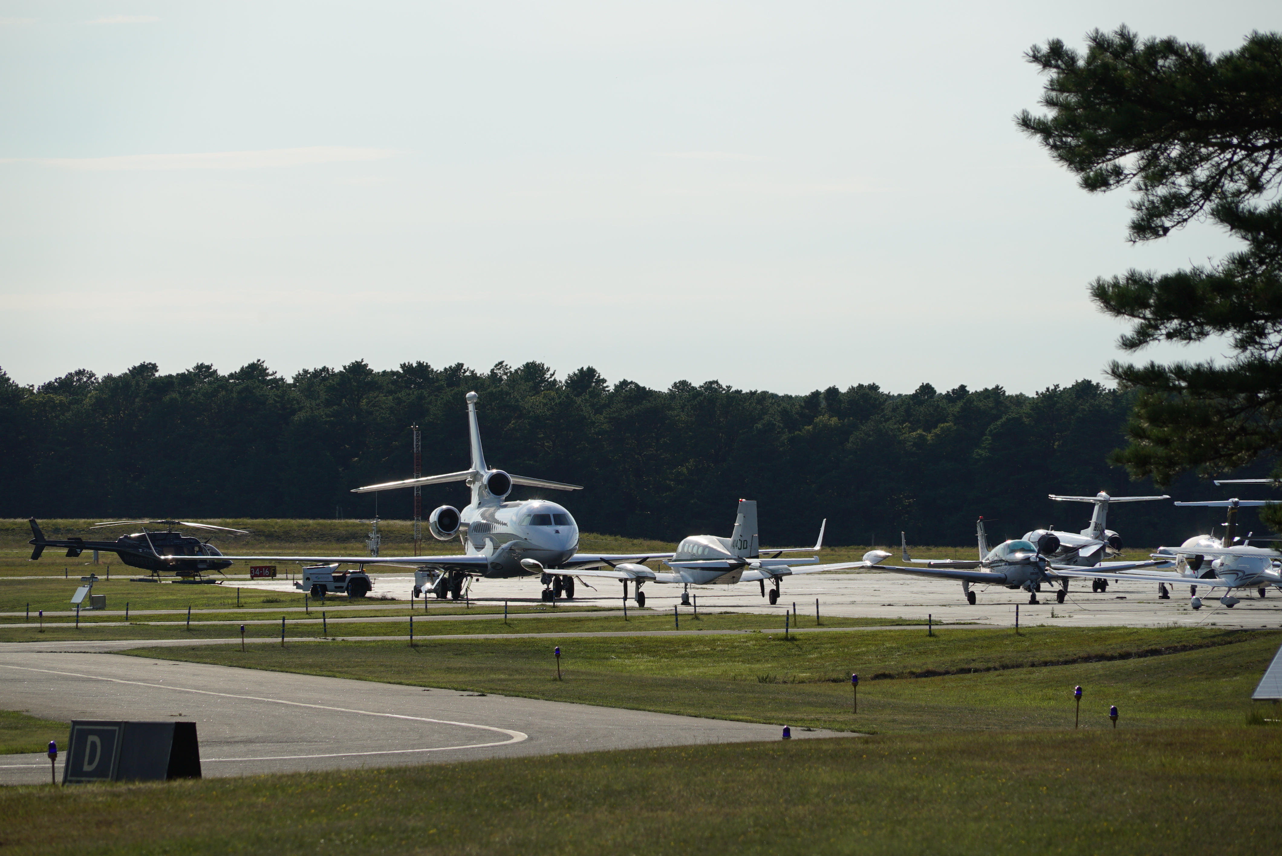 Aircraft parked at East Hampton Airport in August 2017.